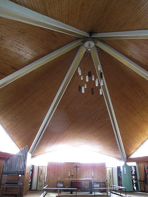 Inside St Richard's parish church, Ham, Surrey, looking toward the altar